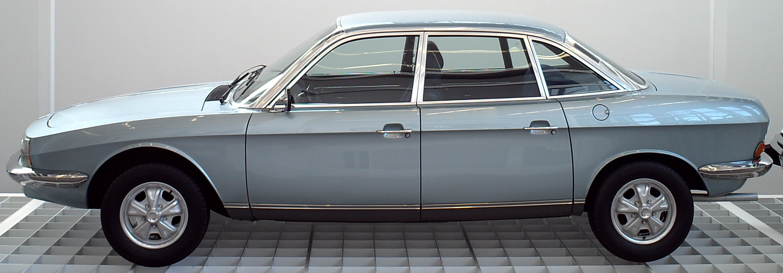 NSU RO 80, 1963/67 manufacturer: NSU, Neckarsulm, Germany design: Claus Luthe (*1932)